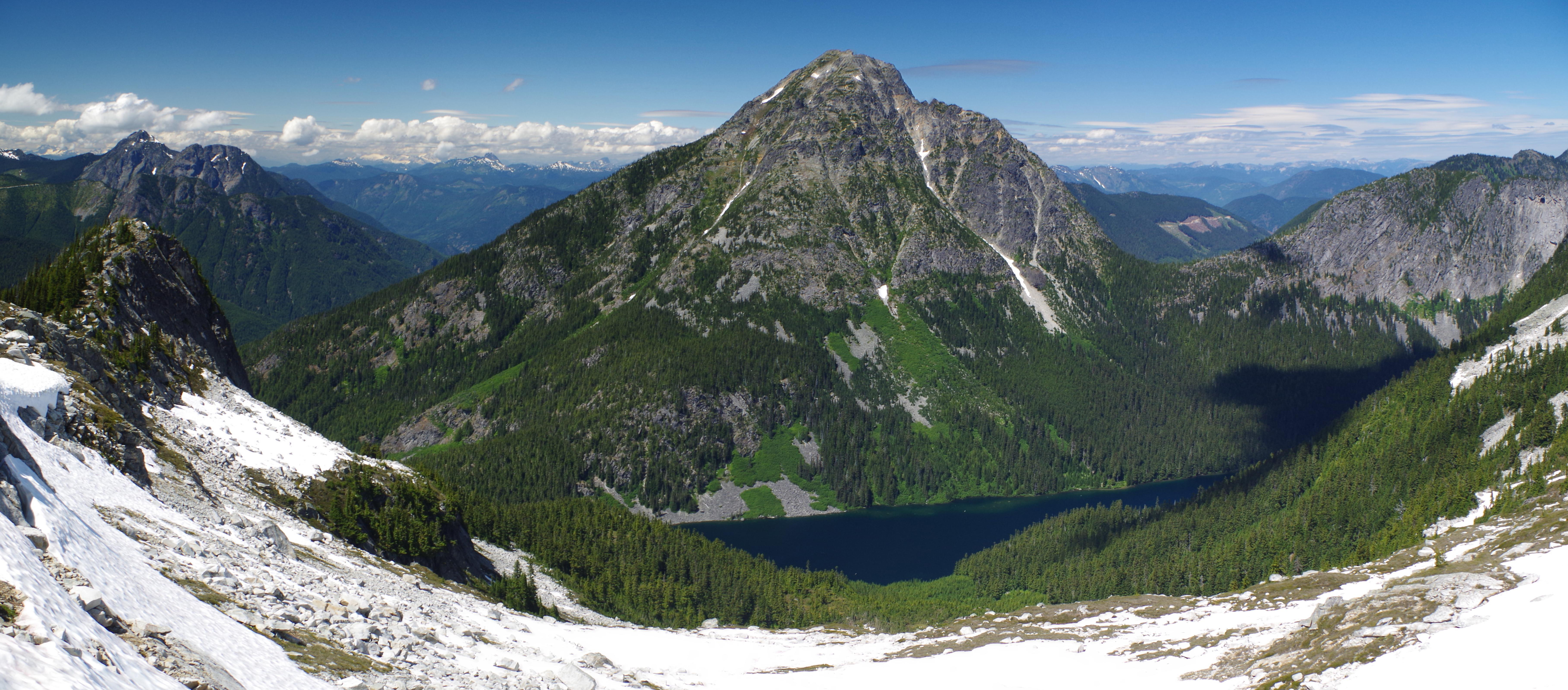 Mount Grant and Eaton Lake viewed from the NW slopes of Eaton Peak